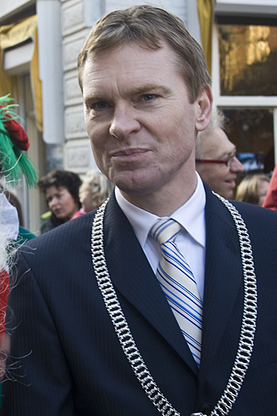 Peter Rehwinkel, as mayor of Groningen, welcomes Sinterklaas.